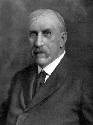 Photograph of CAnadian journalist and publicist George Ham